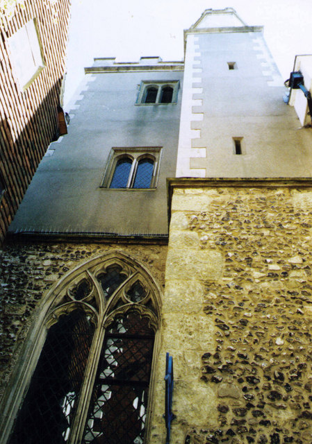 St Laurence, Winchester Listed building erected in the 15th century.